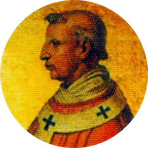 Portait of Pope Nicholas V in the Basilica of Saint Paul Outside the Walls, Rome